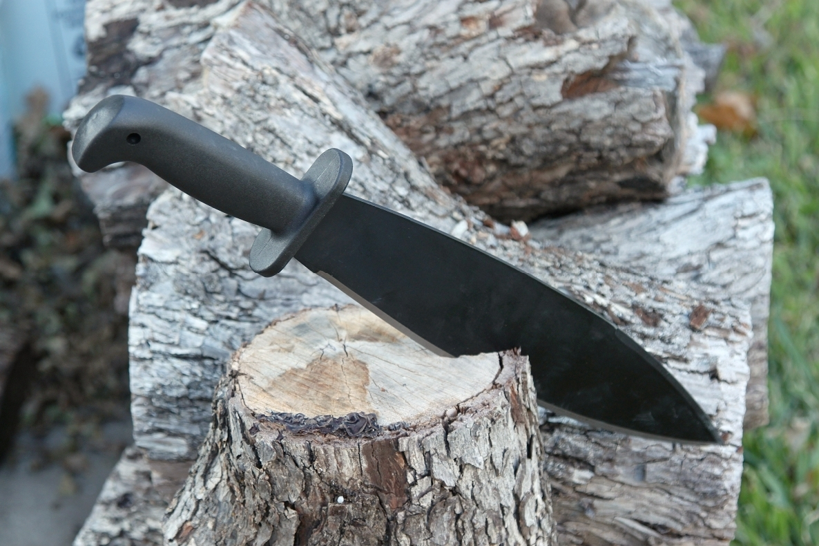 Cold Steel Smatchet Machete. The 1055 Carbon Steel blade is 14 inches long. Length overall is 19 inches. Thickness is .030-inch at the spine